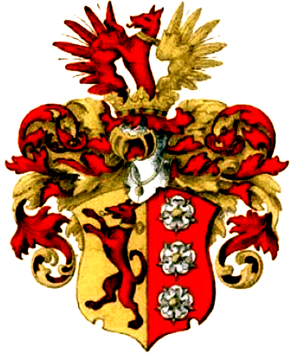 Coat of arms of the Nettelhorst family.